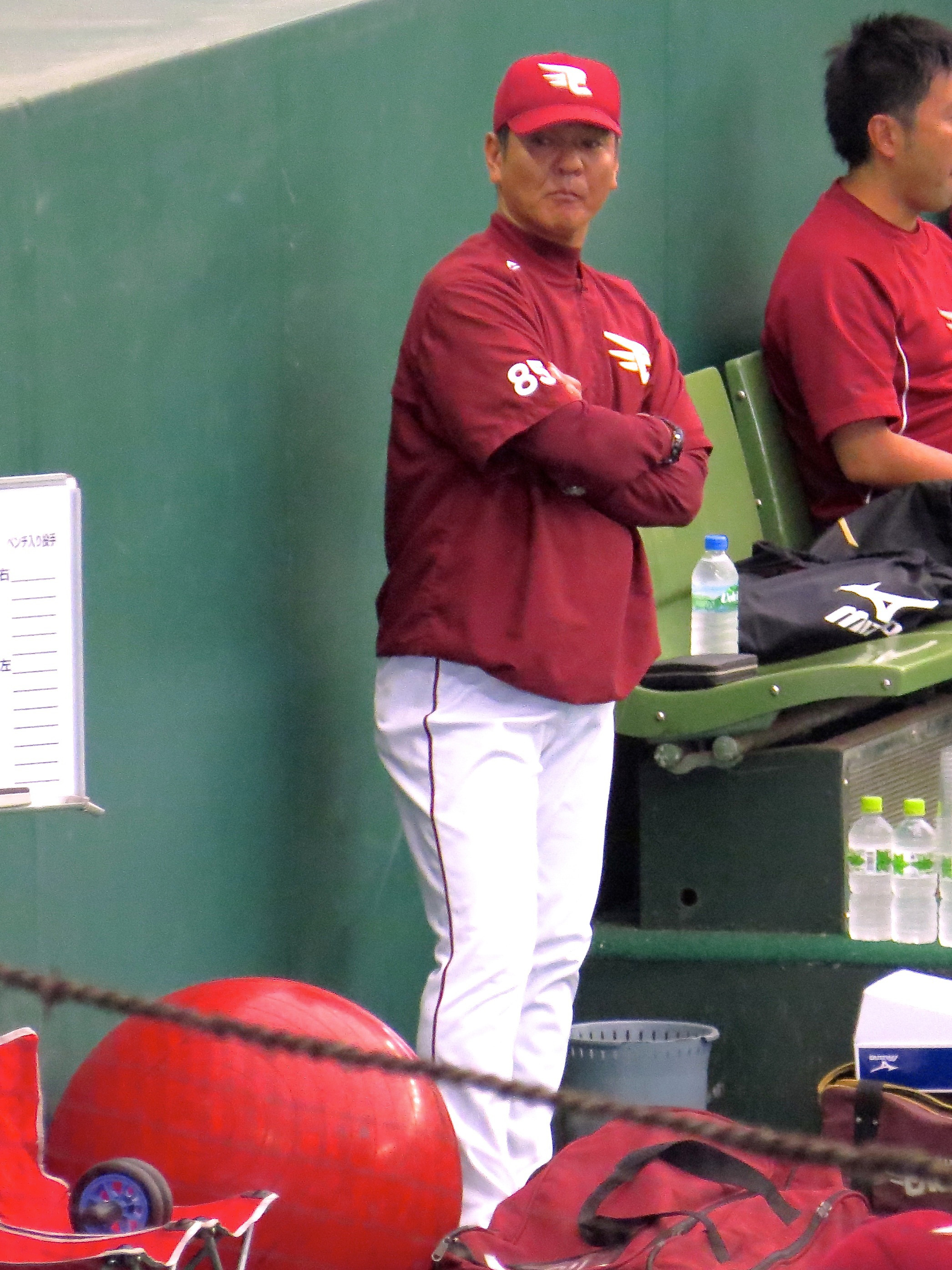 Shuji Yoshida, coach of the Tohoku Rakuten Golden Eagles, at Seibu Dome.